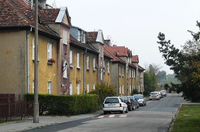 Social houses in Zagorze (Poznan).